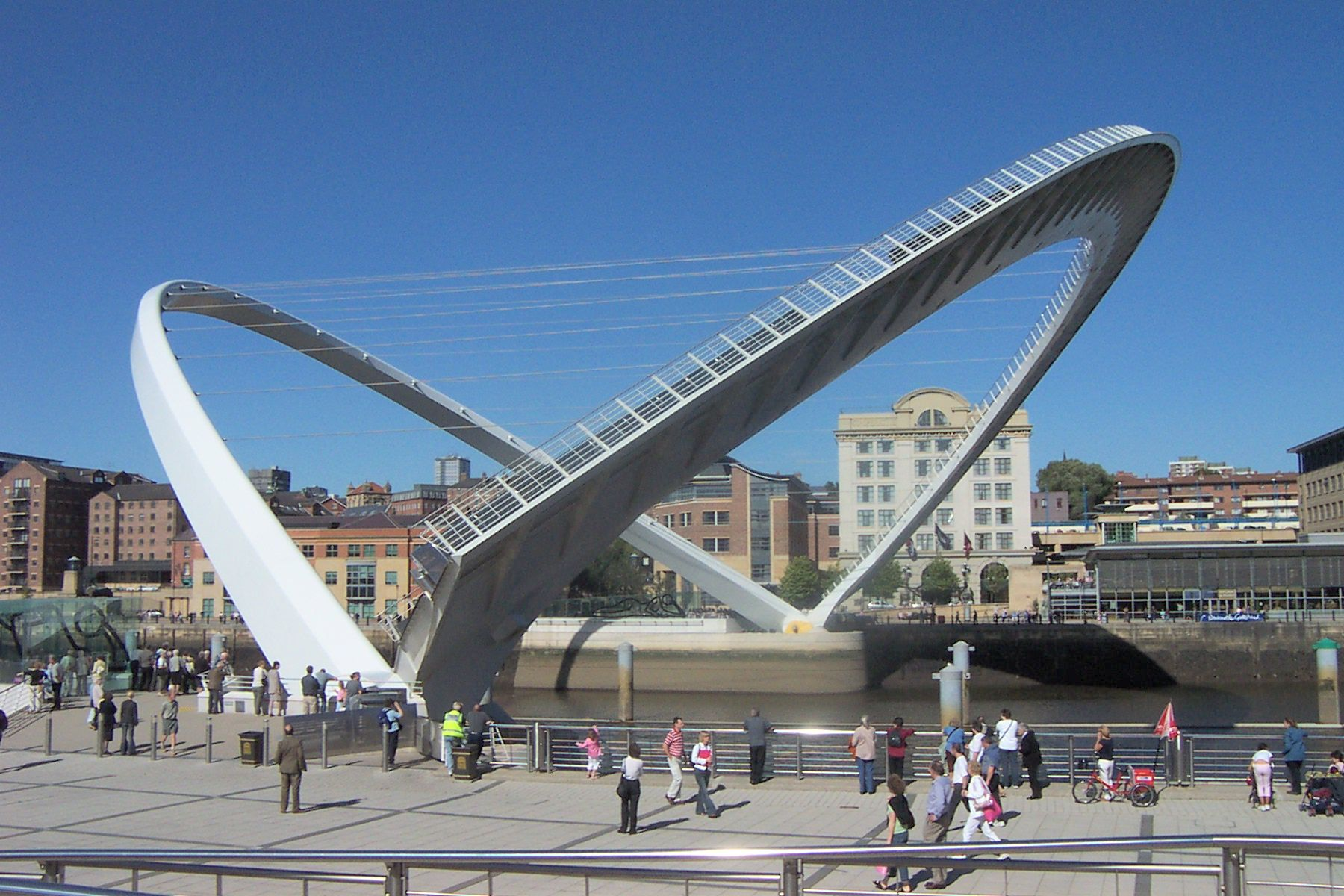 The Gateshead Millennium Bridge, photographed from the side with the BALTIC on.